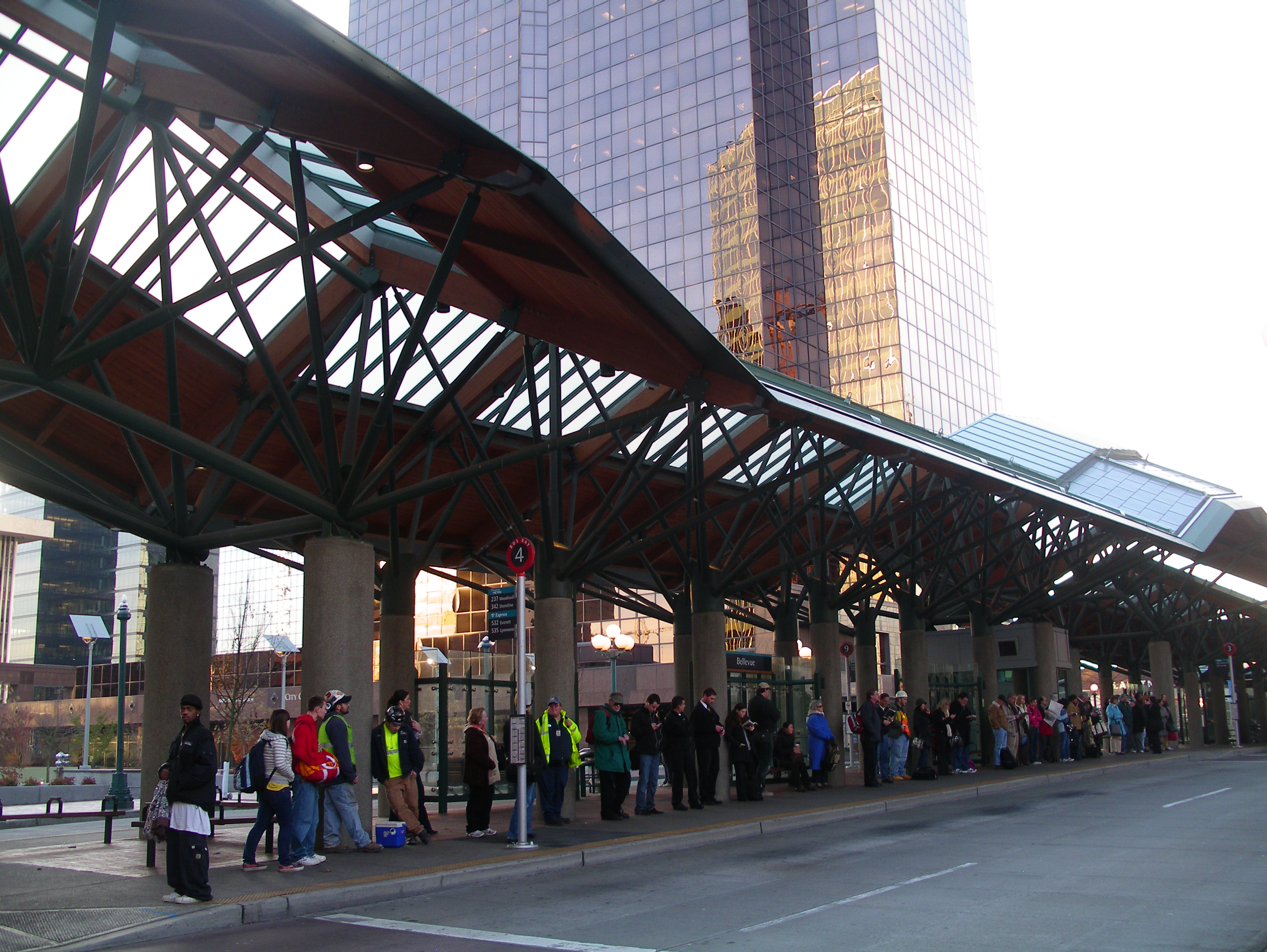 Commuters wait to go back home to Seattle and/or points beyond